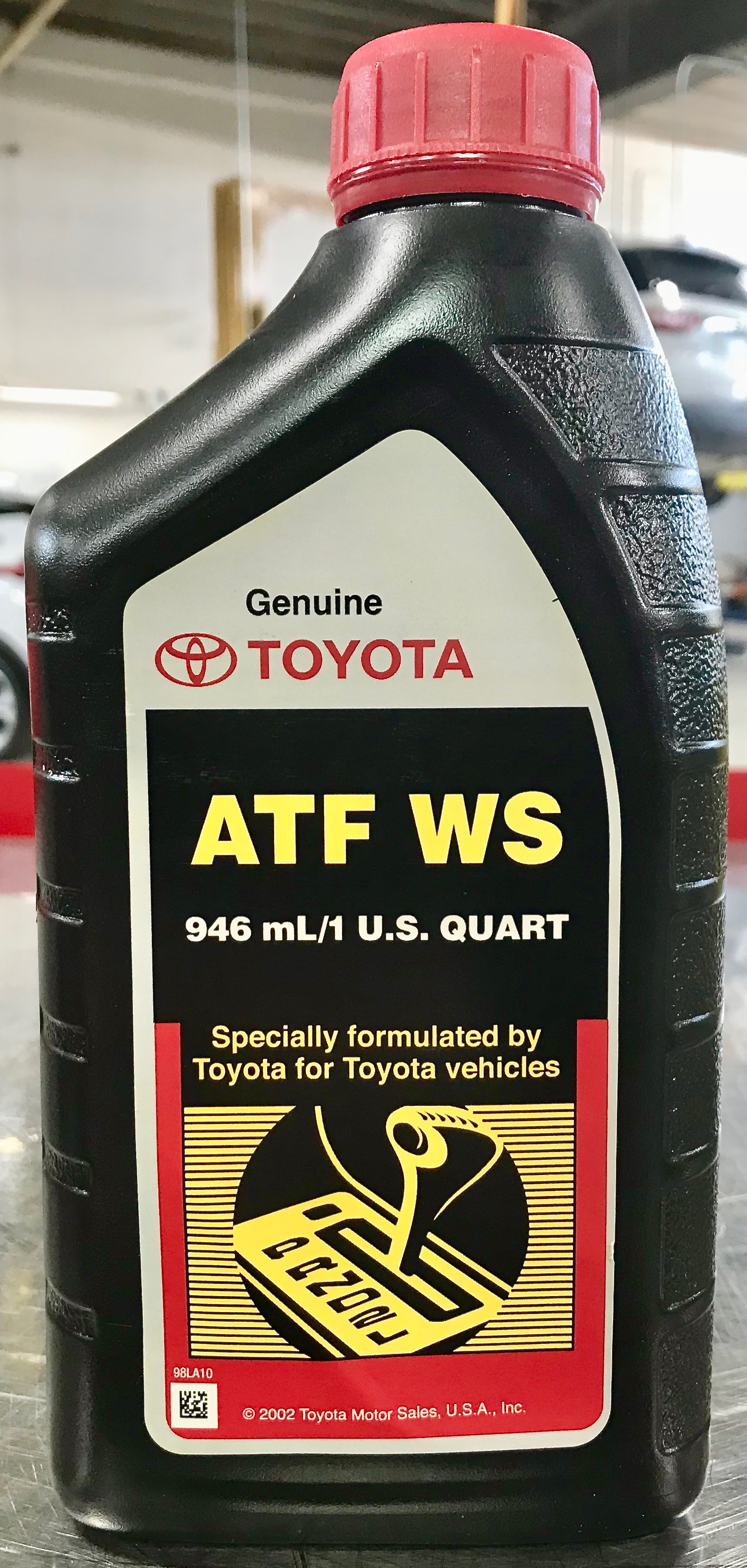 Toyota WS ATF